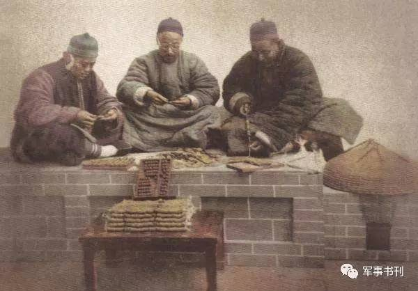 A coloured version of a photograph taken during the reign of the Manchu Qing Dynasty in China.